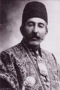 Abol Hassan Khan Ardalan (also known as Fakhr ol-Molk) was the ruler of Ardalan Emirate in Iran.